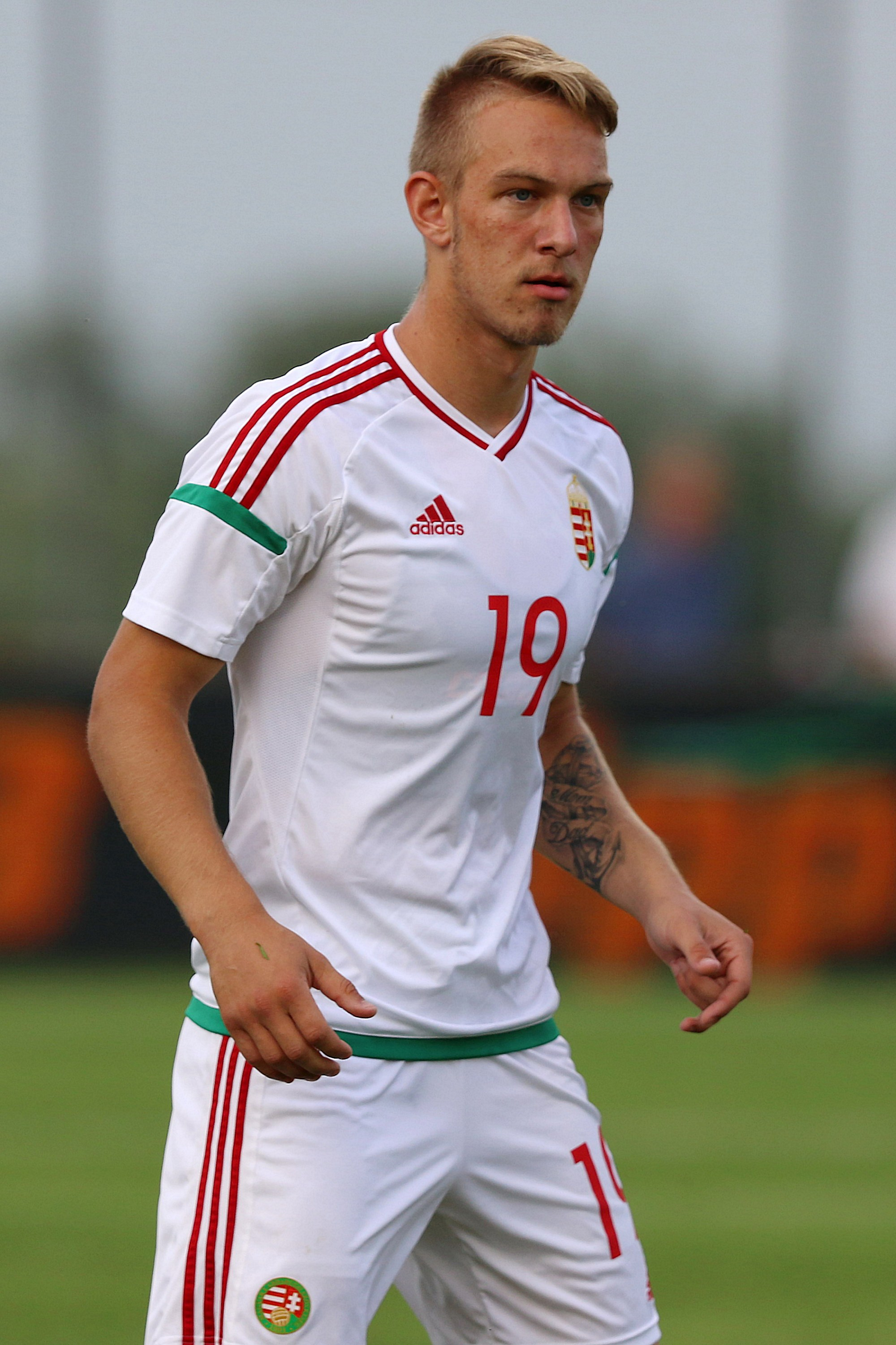 Friendly match: Austria U-21 (red shirts) vs. Hungary U-21 (white shirts) at 12. June 2017 in the Sonnenseestadion in Ritzing 2:1 (1:1) – The photo shows Norbert Kundrák (Ferencvárosi TC)